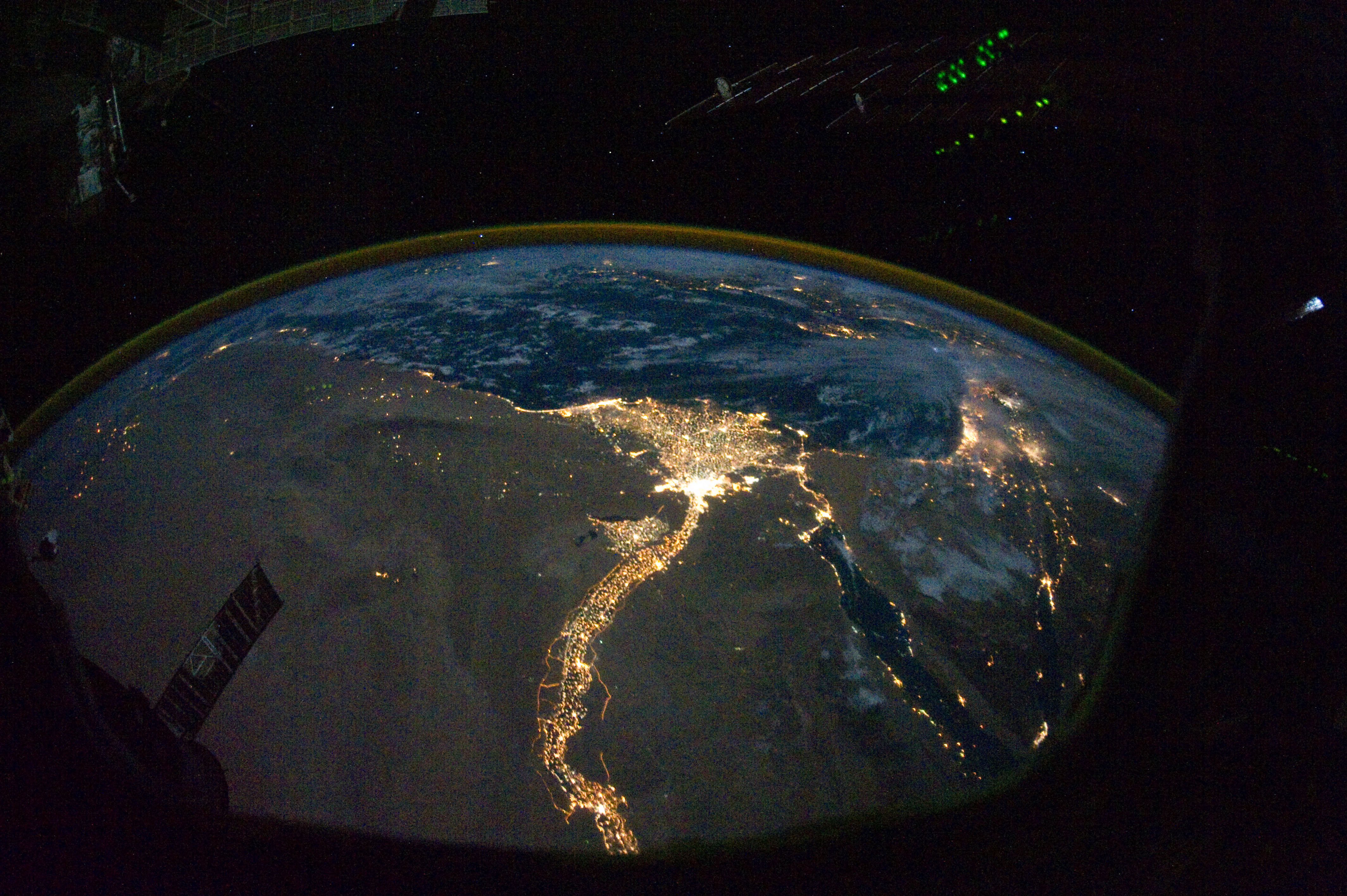 In this view of Egypt, we see a population almost completely concentrated along the Nile Valley, just a small percentage of the country’s land area. The Nile River and its delta look like a brilliant, long-stemmed flower in this astronaut photograph of the south-eastern Mediterranean Sea, as seen from the International Space Station. The Cairo metropolitan area forms a particularly bright base of the flower. The smaller cities and towns within the Nile Delta tend to be hard to see amidst the dense agricultural vegetation during the day. However, these settled areas and the connecting roads between them become clearly visible at night. Likewise, urbanized regions and infrastructure along the Nile River becomes apparent. Another brightly lit region is visible along the eastern coastline of the Mediterranean—the Tel-Aviv metropolitan area in Israel (image right). To the east of Tel-Aviv lies Amman, Jordan. The two major water bodies that define the western and eastern coastlines of the Sinai Peninsula—the Gulf of Suez and the Gulf of Aqaba—are outlined by lights along their coastlines (image lower right). The city lights of Paphos, Limassol, Larnaca, and Nicosia are visible on the island of Cyprus (image top). Scattered blue-grey clouds cover the Mediterranean Sea and the Sinai, while much of north-eastern Africa is cloud-free. A thin yellow-brown band tracing the Earth’s curvature at image top is air-glow, a faint band of light emission that results from the interaction of atmospheric atoms and molecules with solar radiation at approximately 100 kilometres altitude.